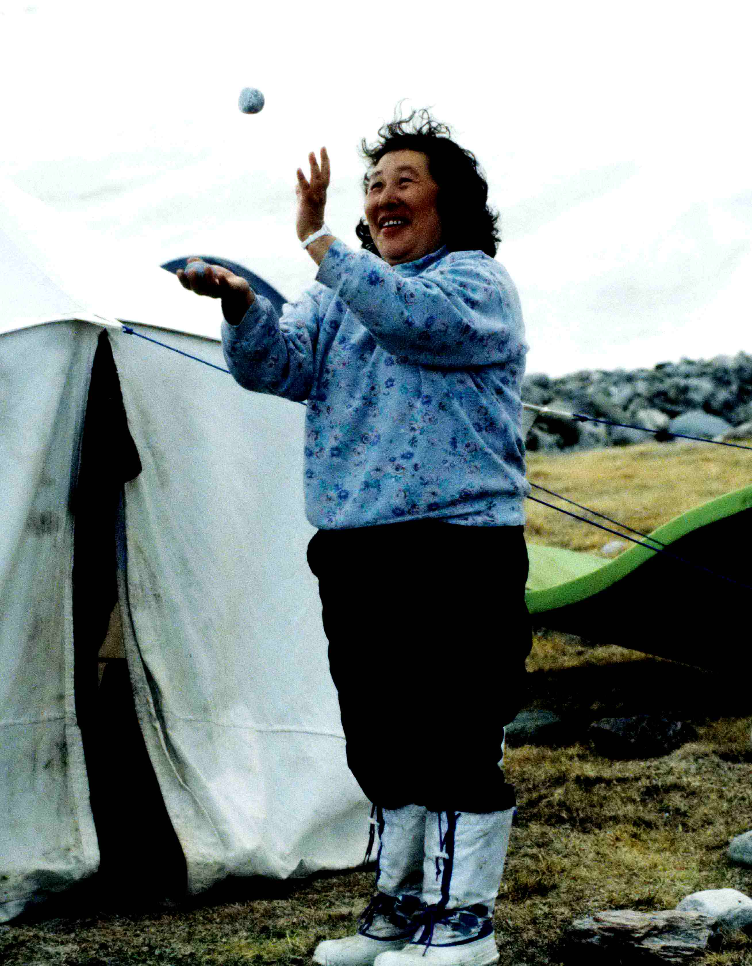 Skillful play with stones